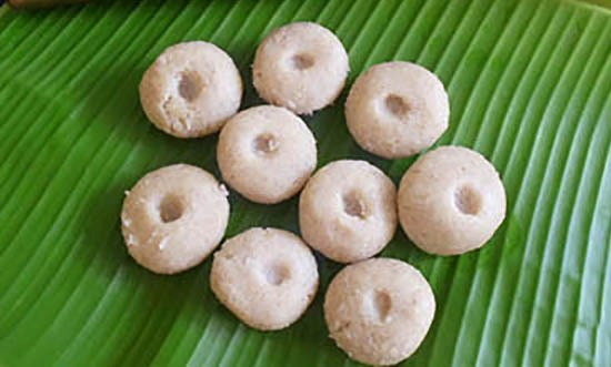 Pundi - The Rice Dumpling Food Item from TuluNadu, India.